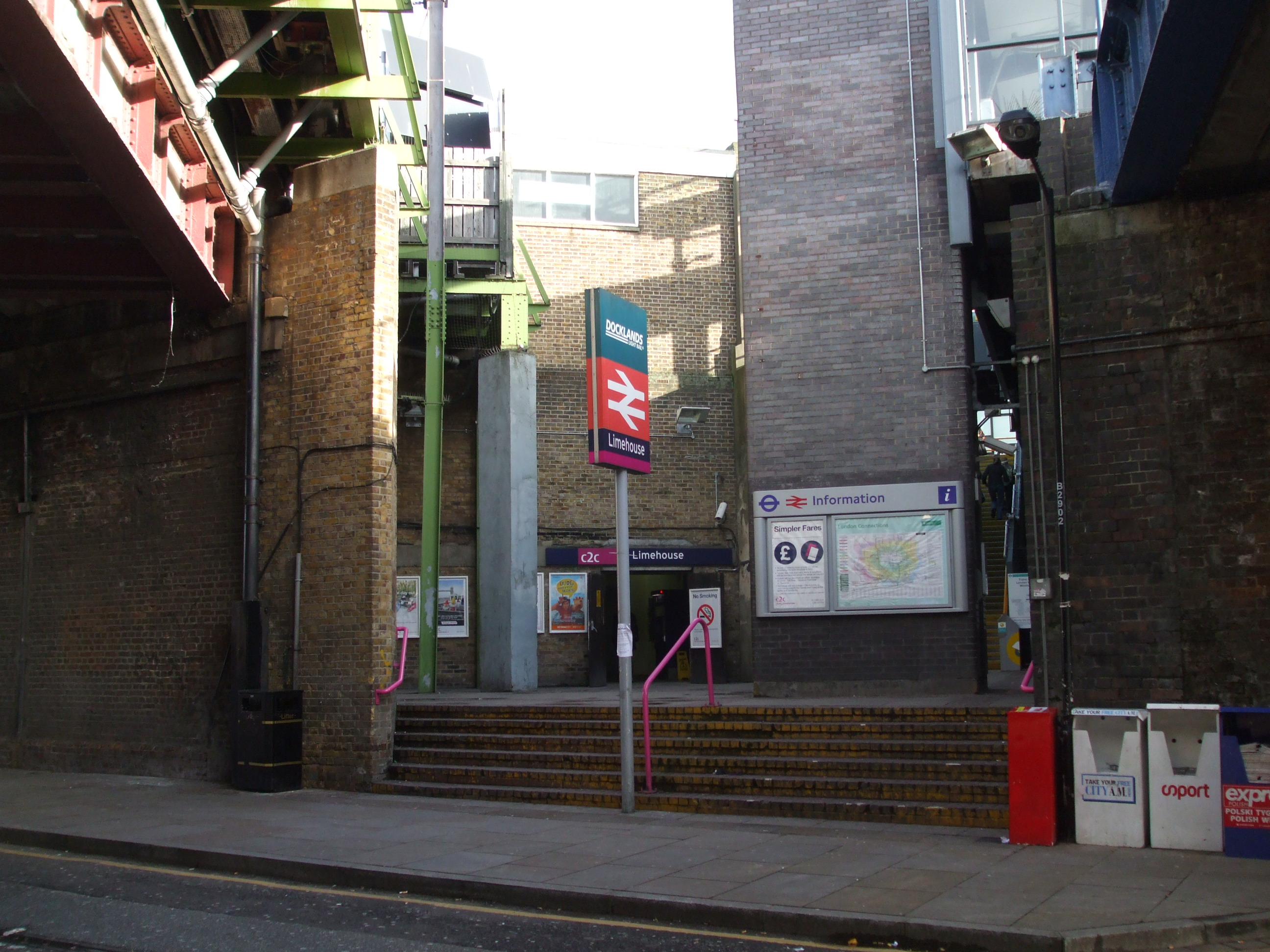 Limehouse station western entrance. Mainline entrance straight ahead, DLR on right. The lift shaft obscures the view of the new footbridge linking the two pairs of platforms.